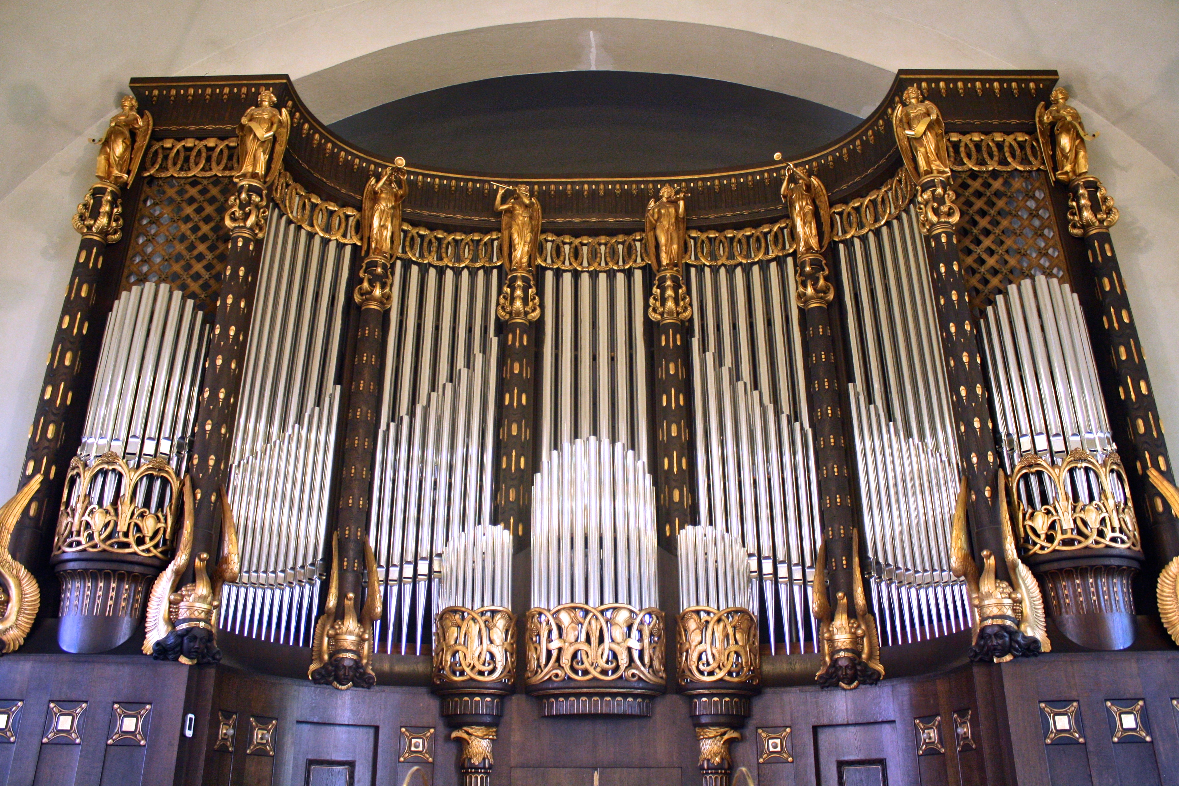 The 1904 Jehmlich organ of the Christuskirche, Dresden-Strehlen (Germany)